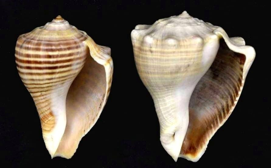 Two seashells of the species Volema pyrum (Gmelin, 1791)[1]; from coast of Red Sea. Underside.